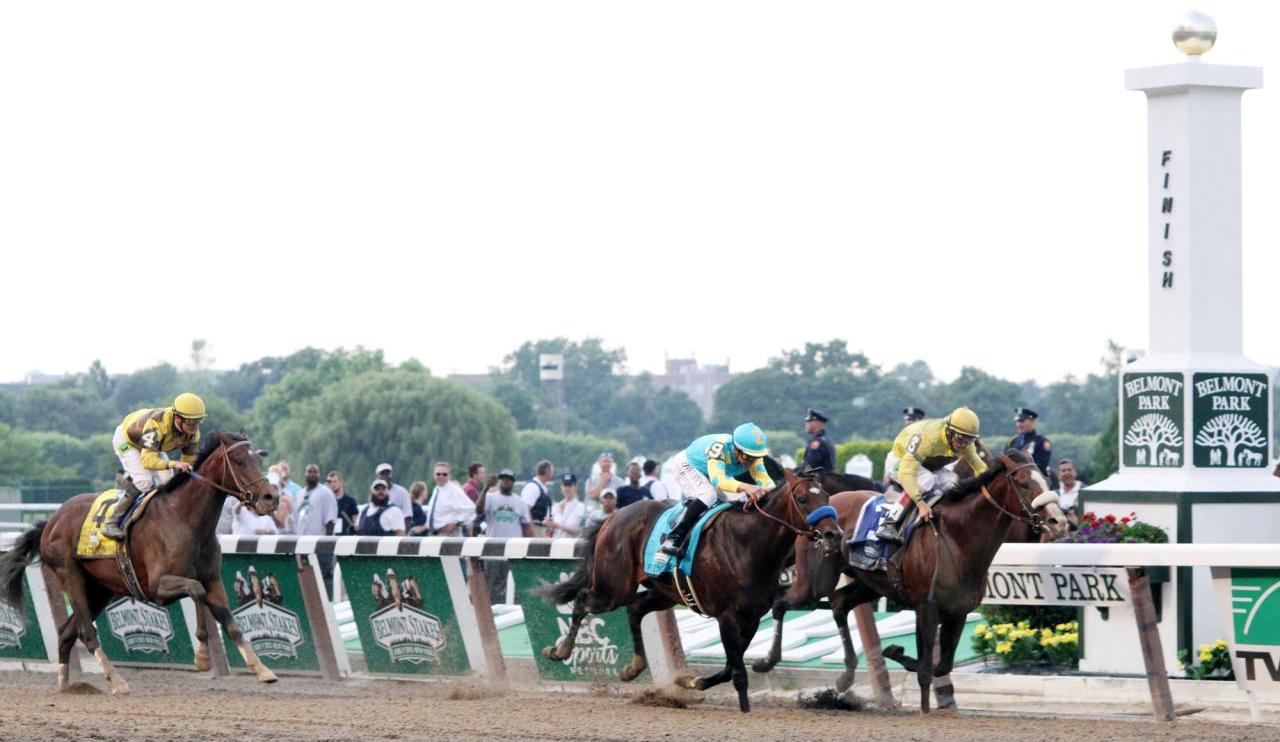 Union Rags and jockey John Velazquez on the inside. Paynter (9) and Mike Smith 2nd, Atigun (4) and Julien Leparoux 3rd